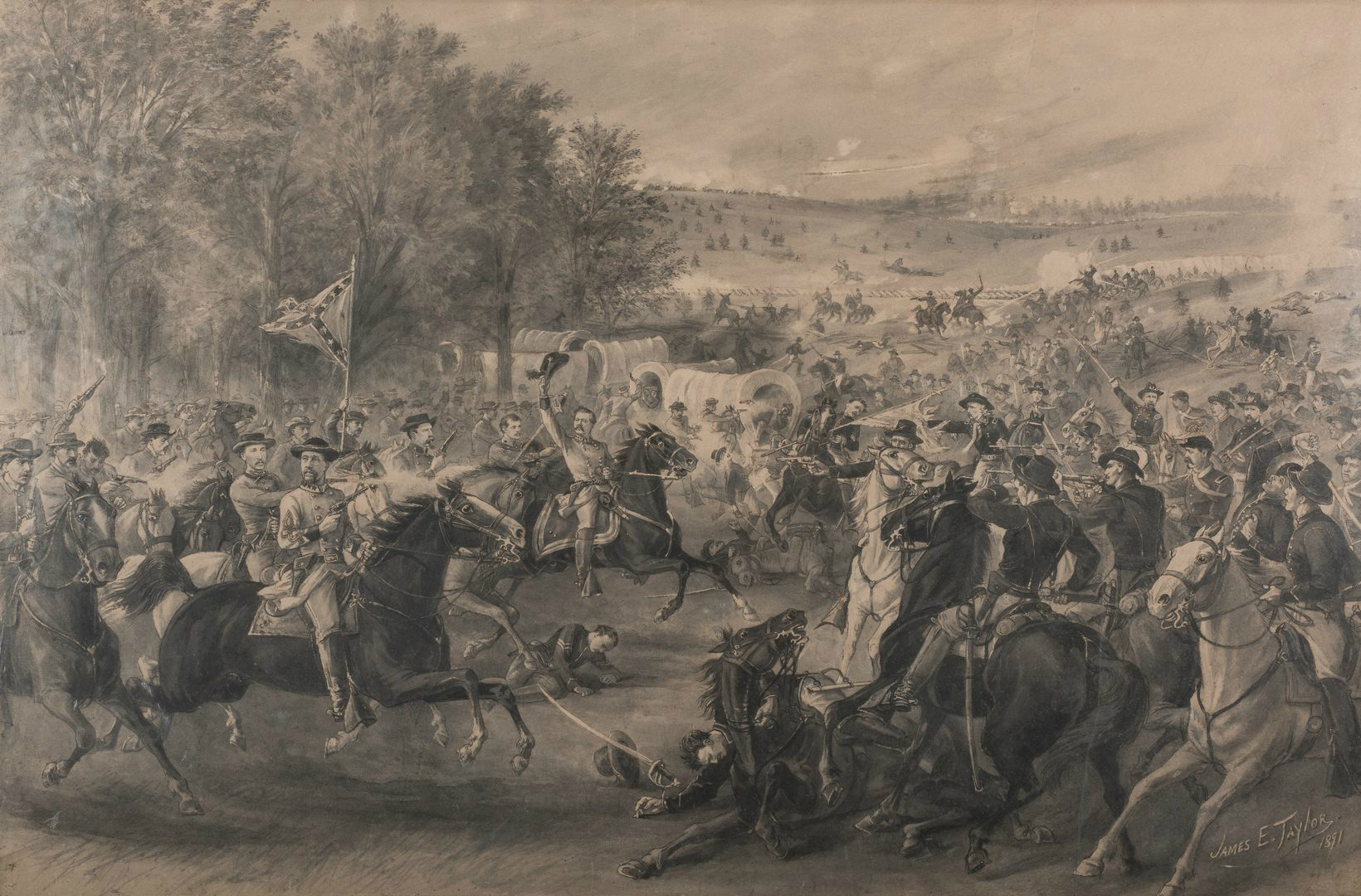 Charge of the Confederate cavalry at Trevilian Station, Virginia, by James E. Taylor, 1891. Appeared as a print illustration in Rossiter Johnson. Campfire and Battlefield: history of the conflicts and campaigns of the great Civil War in the United States. New York, 1896.